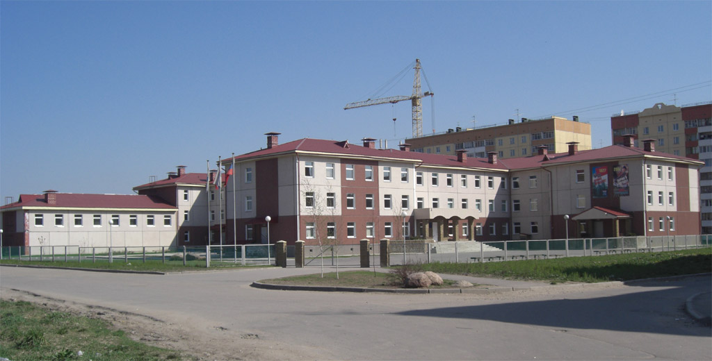 School № 8 in Gatchina